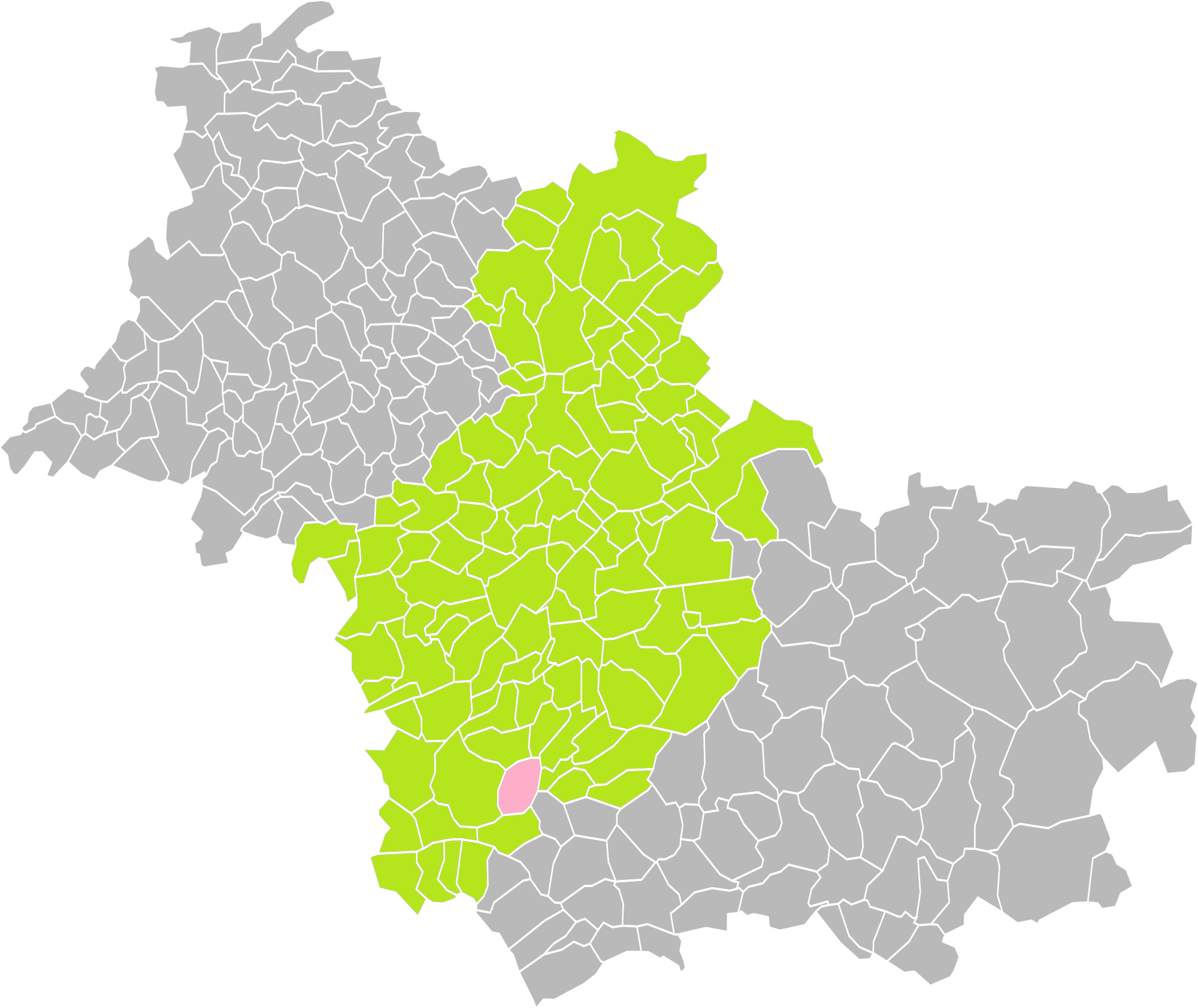 Location of the commune of Thenay in the arrondissement of Blois (Loir-et-Cher)